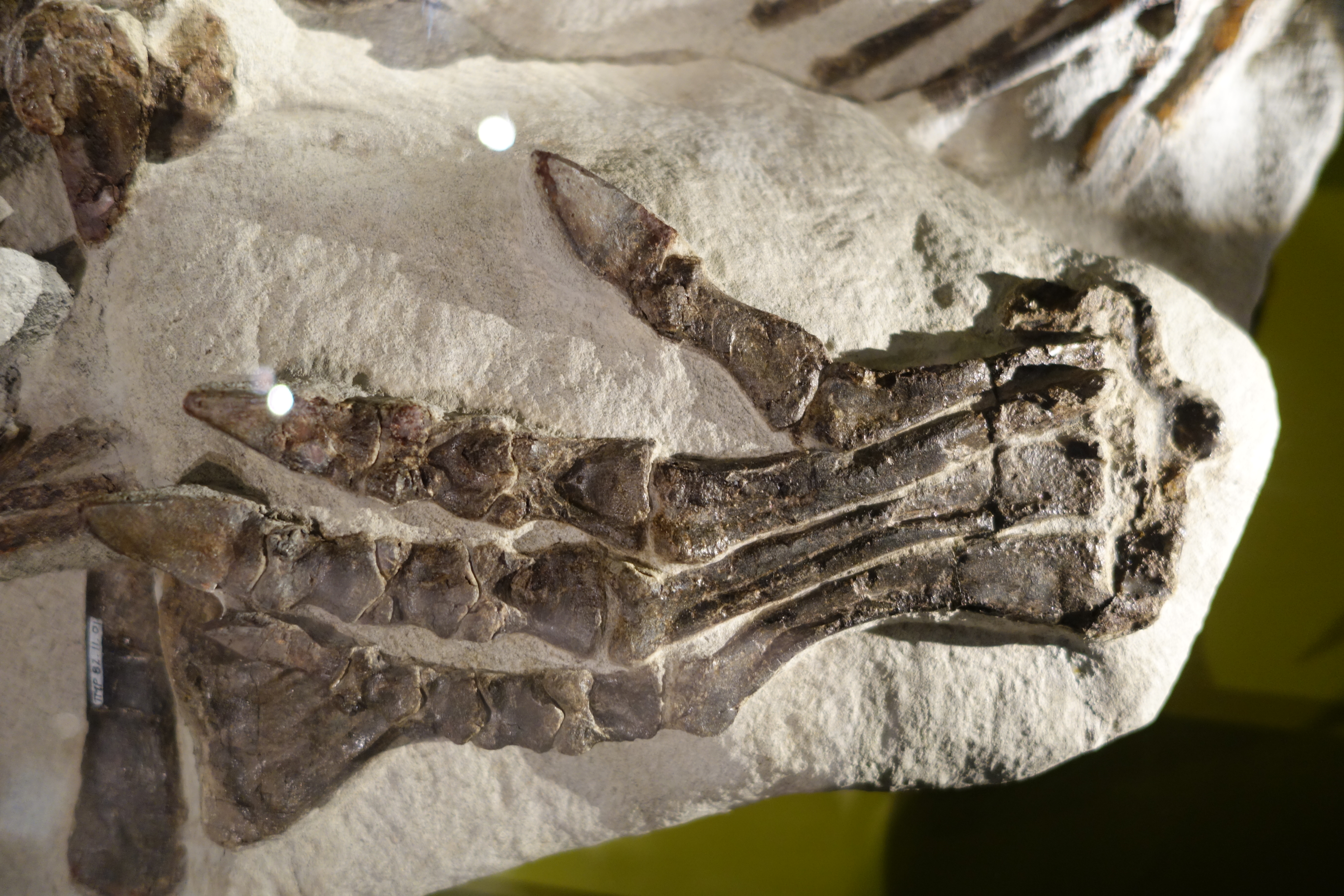 Montanoceratops cerorhynchus, detail of foot, from Crowsnest Pass, Alberta. On display at the Royal Tyrrell Museum, Alberta, Canada.